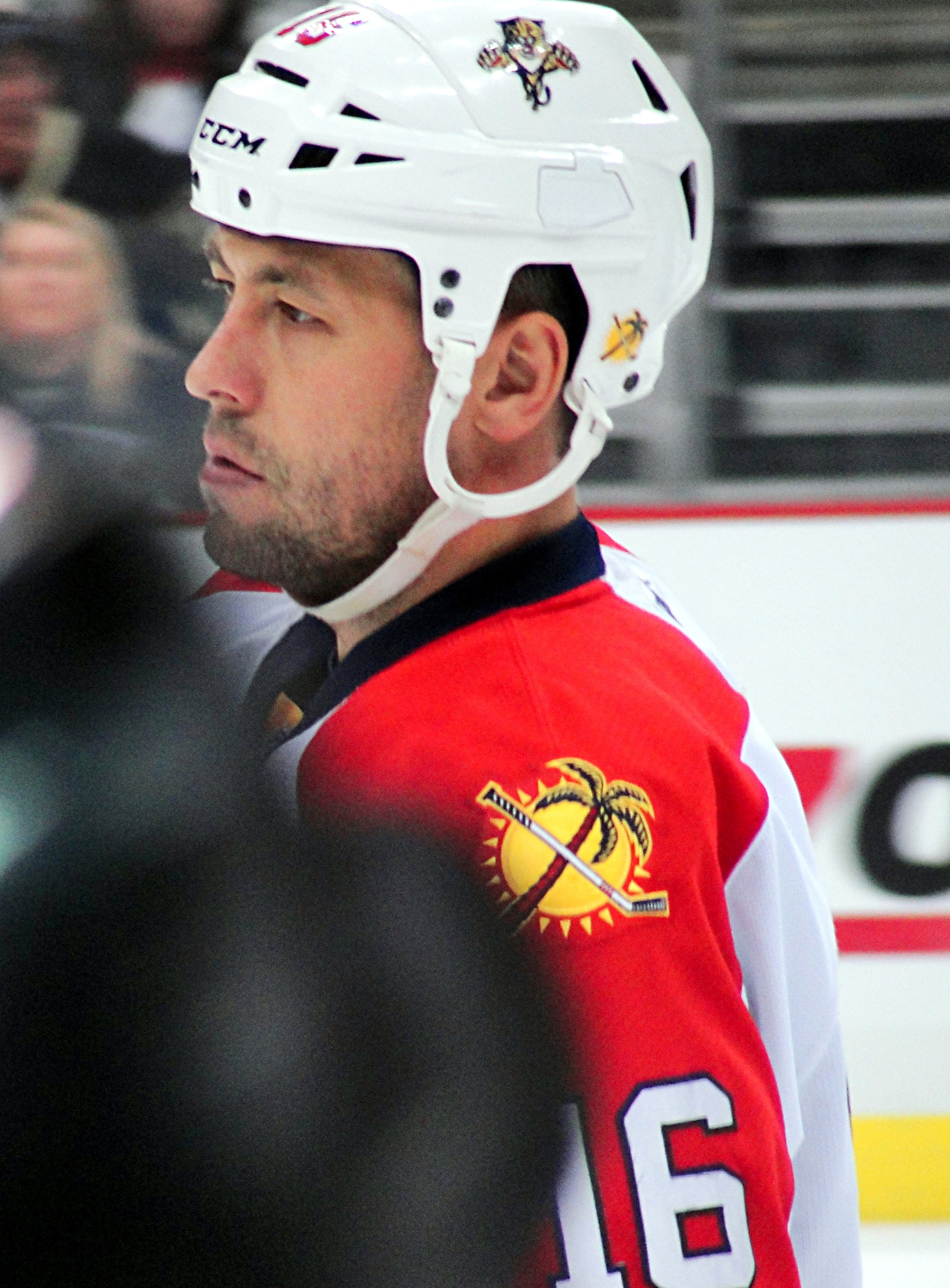 Florida Panthers forward Marco Sturm skates against the Pittsburgh Penguins, March 9, 2012 at Consol Energy Center in Pittsburgh, PA.